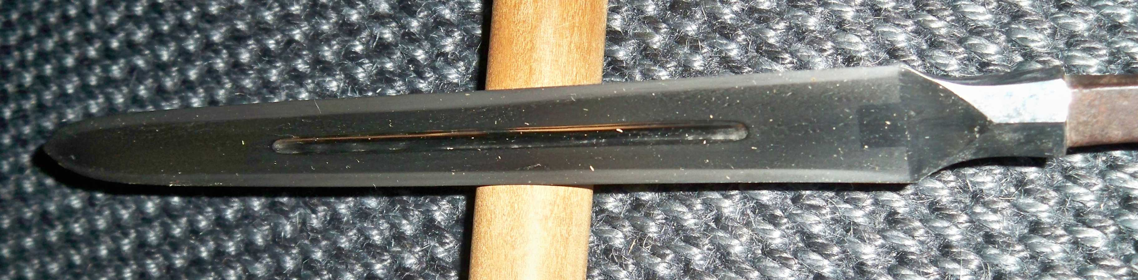 An antique Japanese (samurai) straight yari (su yari) with two equal sides (hira sankaku).